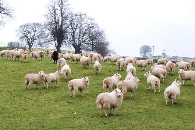 All ready for lambing These ewes have been prepared for lambing with the wool around the vagina and tail dagged out to help cut infections to the livestock. It also helps the shepherd see how individual sheep are progressing as they approach lambing. Note that these ewes are "lowland" sheep with docked tails, this would be too draughty for "upland" ewes which have long tails.